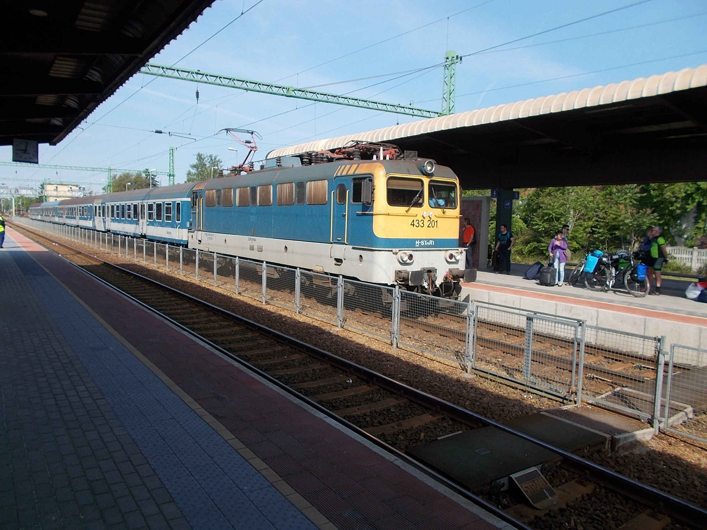 Siófok railway station. - Siófok, Somogy County, Hungary